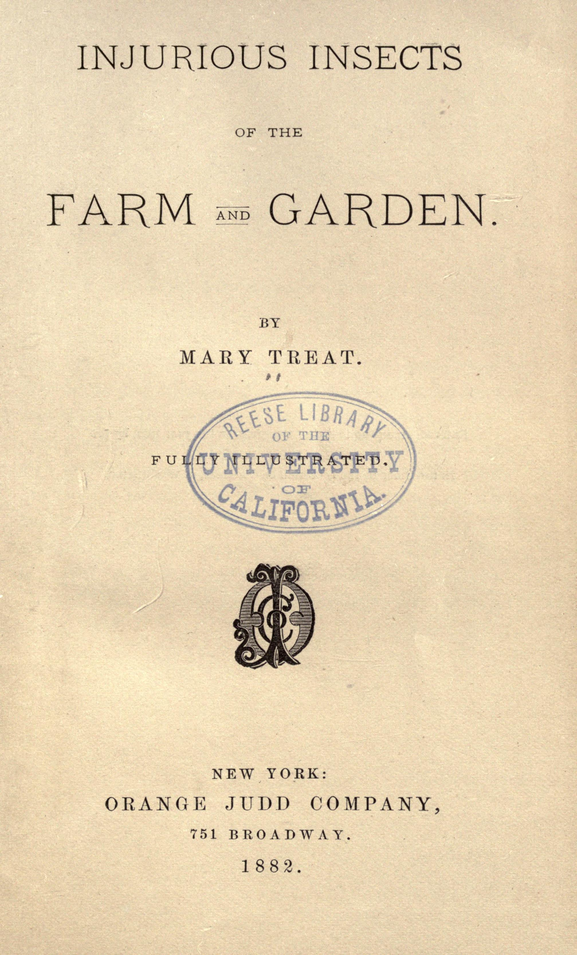 Injurious insects of the farm and garden. By Mary Treat.